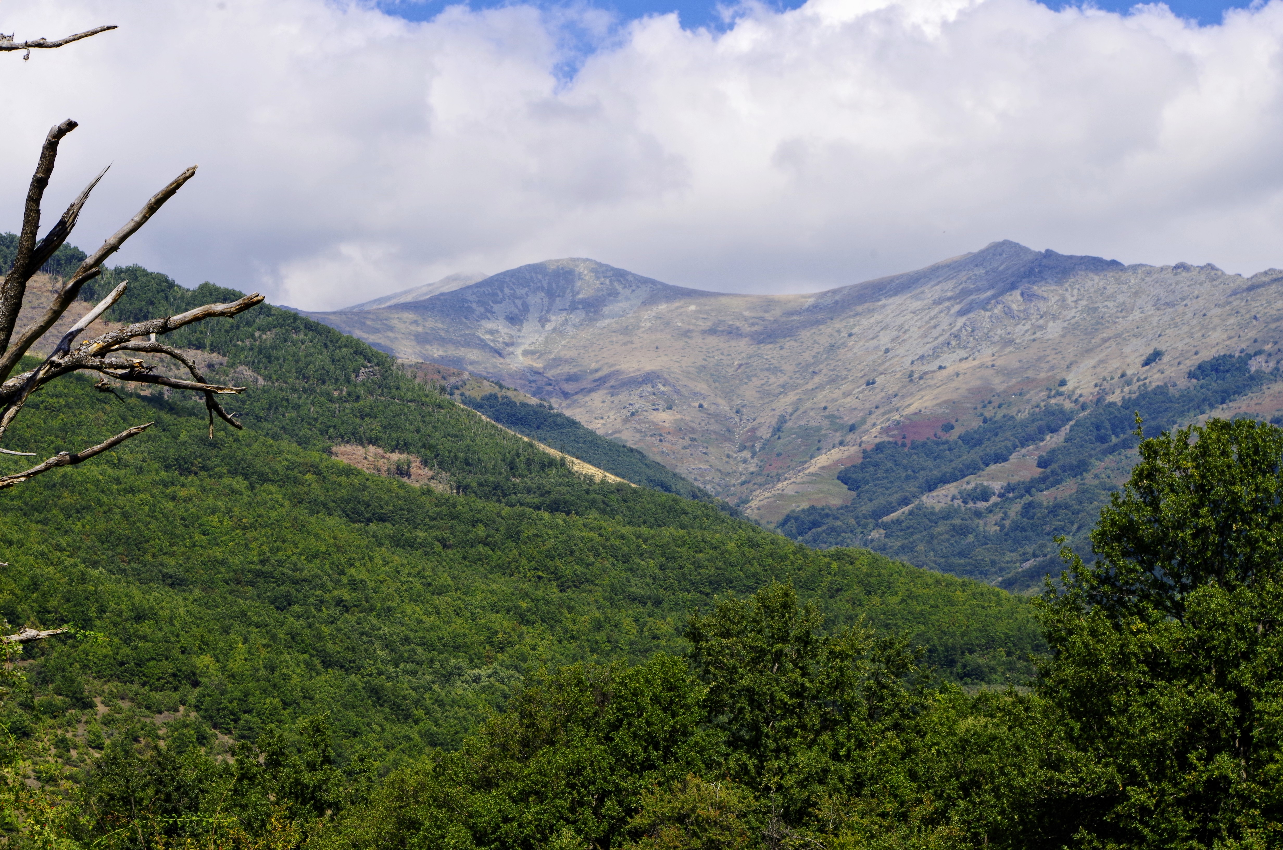 View of the Baba Mountain from the village Brajčino